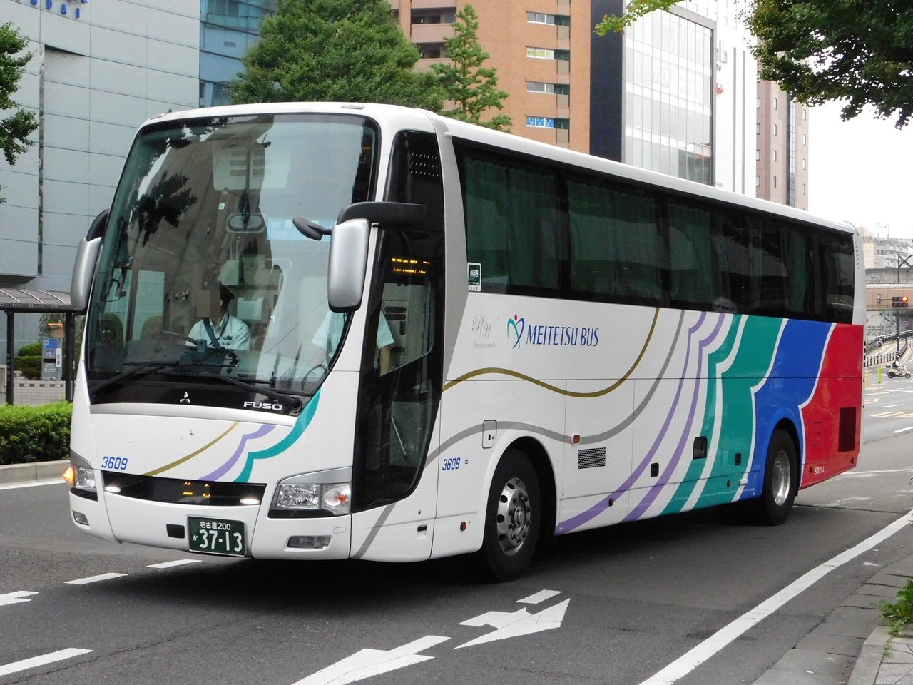 Meitetsu Bus Mitsubishi Fuso Aero Queen (QTG-MS96VP)highwaybus "Aoba-gou"(Nagoya-Sendai),premium wide